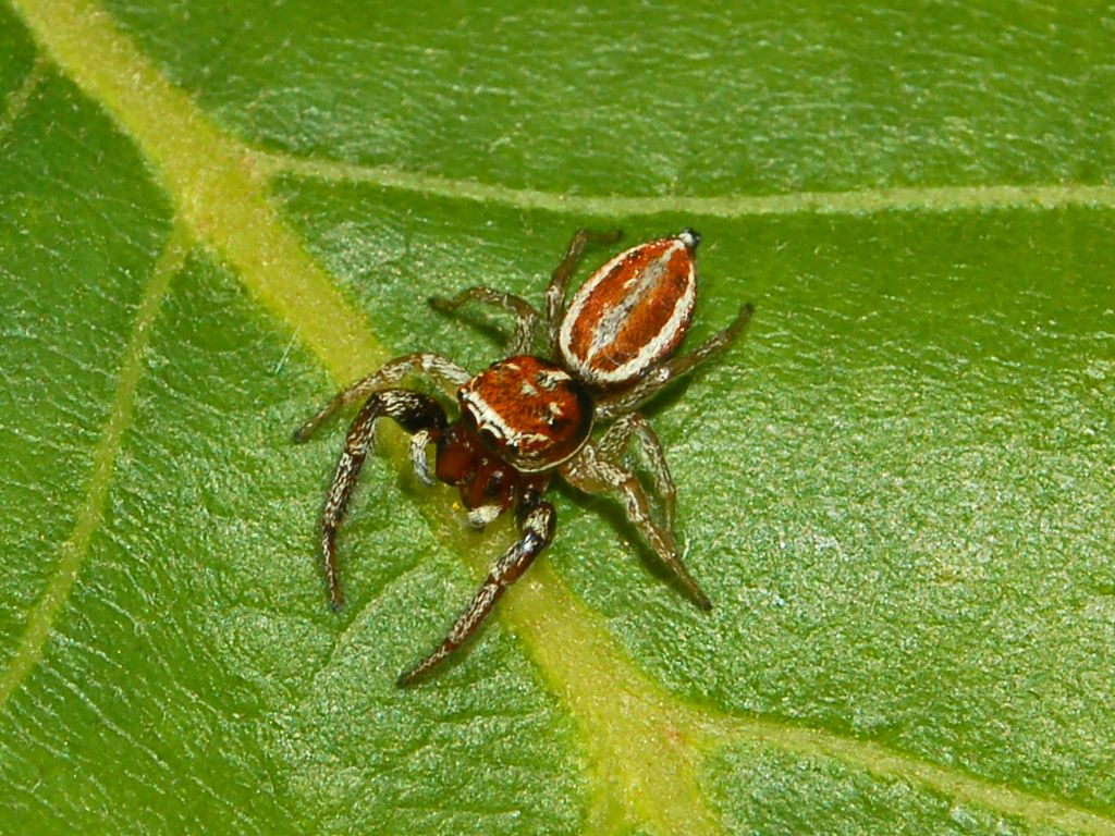 Icius hamatus, male, Genova Italy